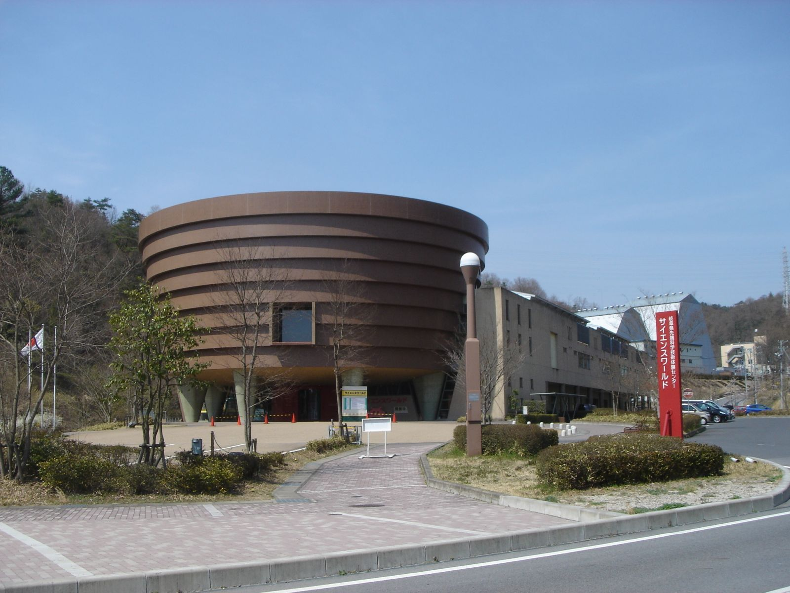 Gifu Research Information Center (Science World)（岐阜県先端科学技術体験センター (サイエンスワールド)）, Mizunami, Gifu, Japan (岐阜県瑞浪市)で撮影。